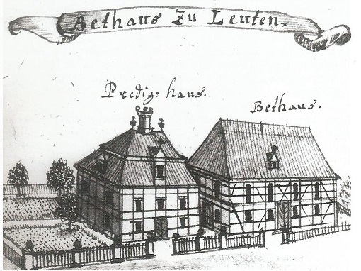 Historical picture - Municipality Dolní Lutyně